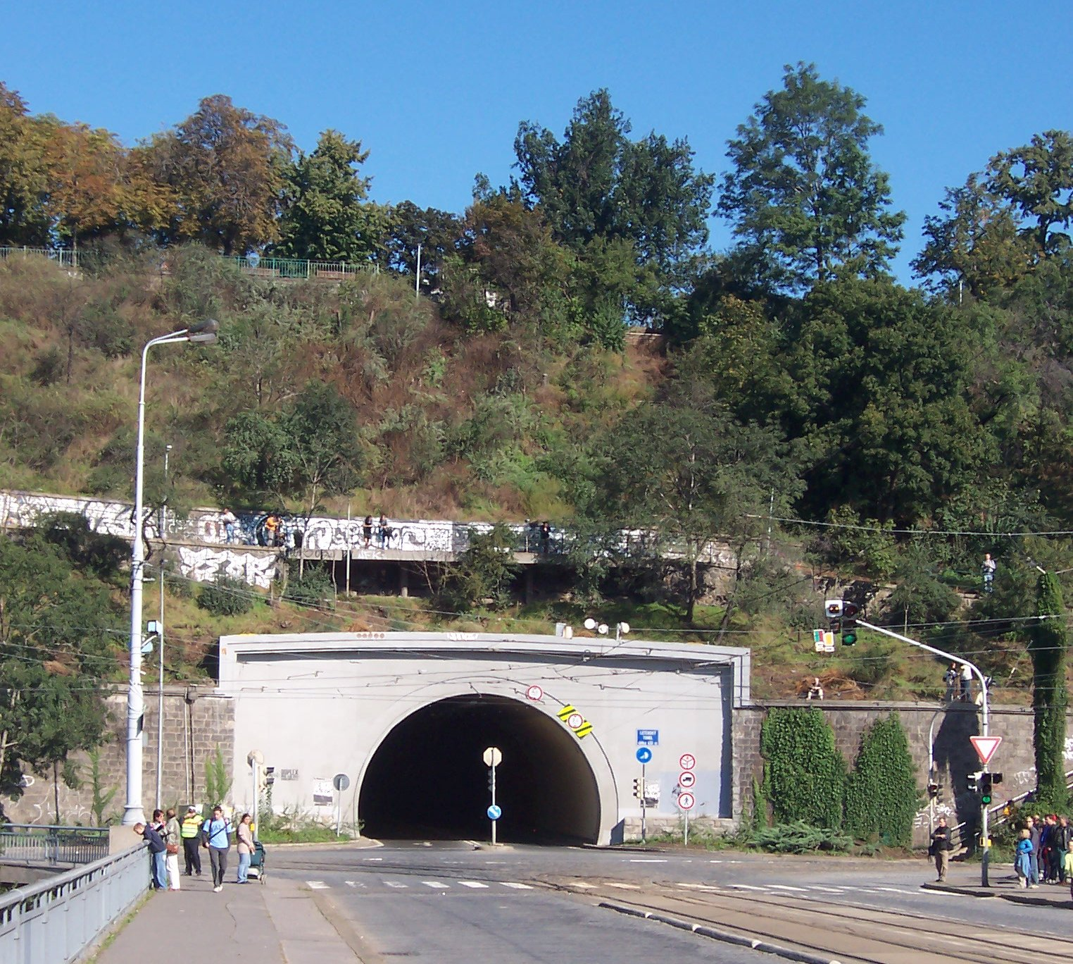 The south portal of the Letenský tunnel in Prague.